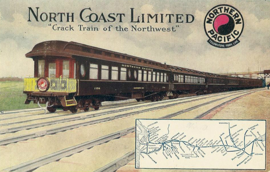 Postcard depiction of the North Coast Limited and map of its route.